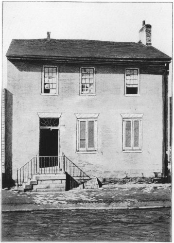 The birthplace of American lawyer and politician Edwin M. Stanton.